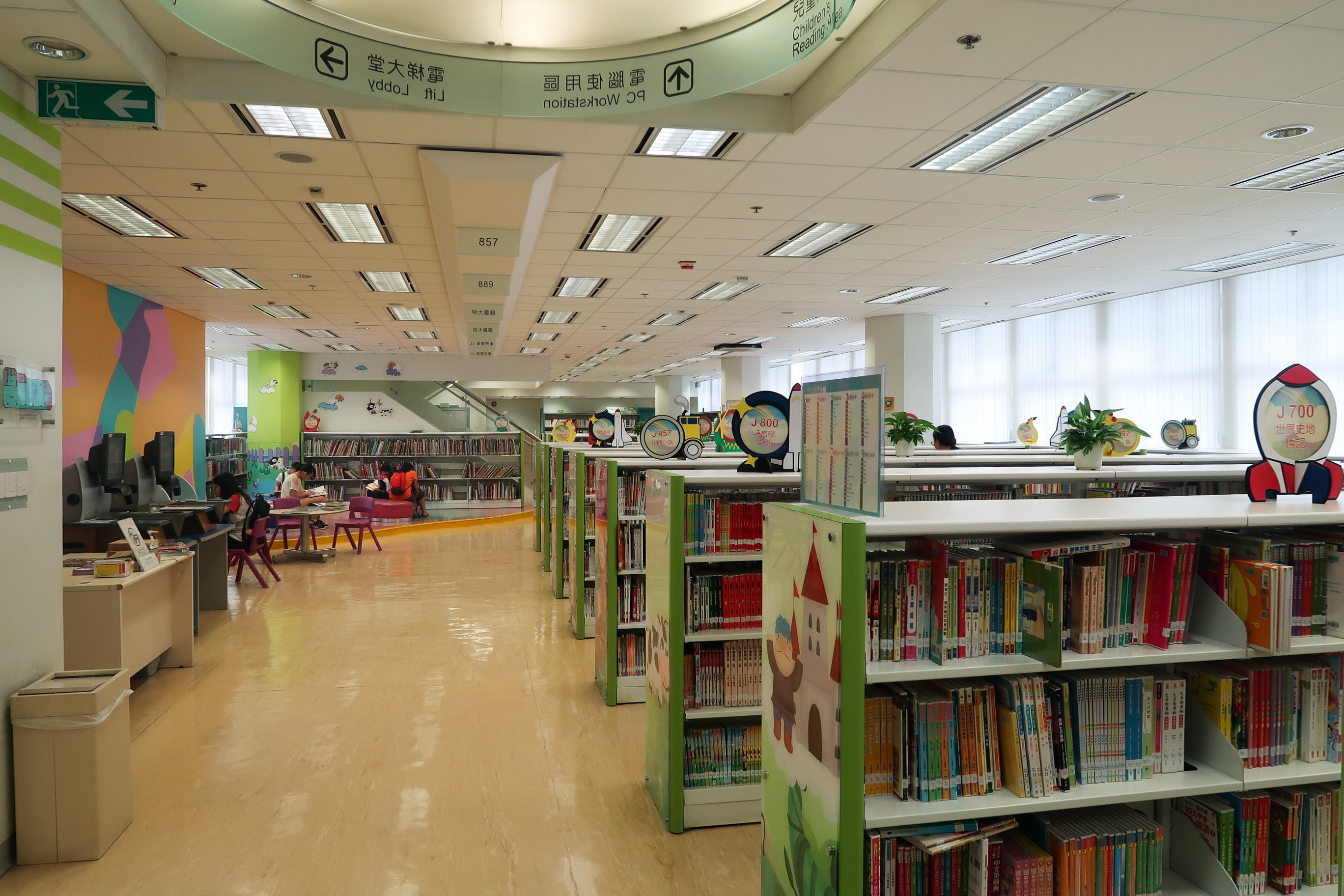 Kowloon Public Library Level 4 Children Library